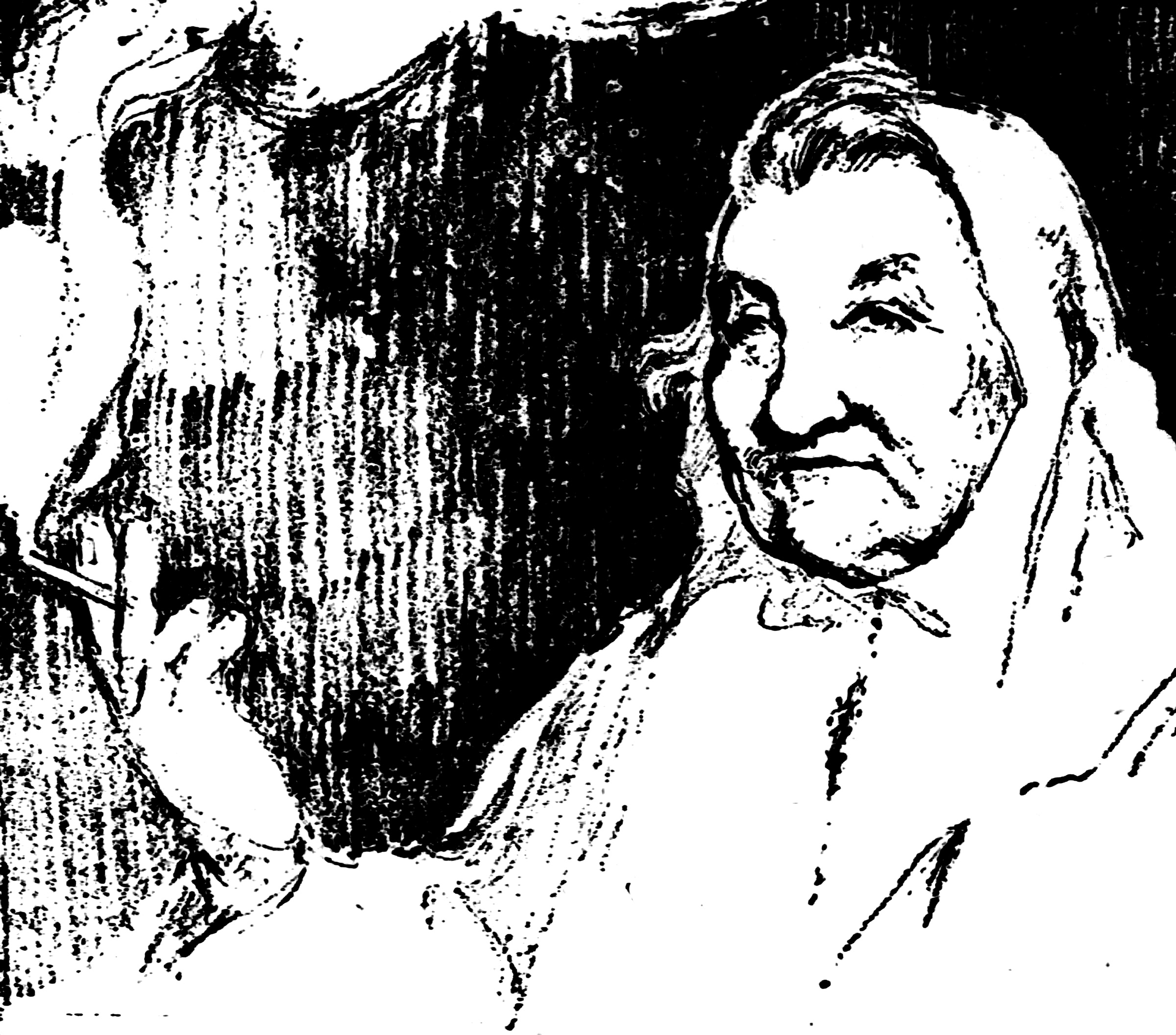 Catherine Breshkovsky with a cigarette.